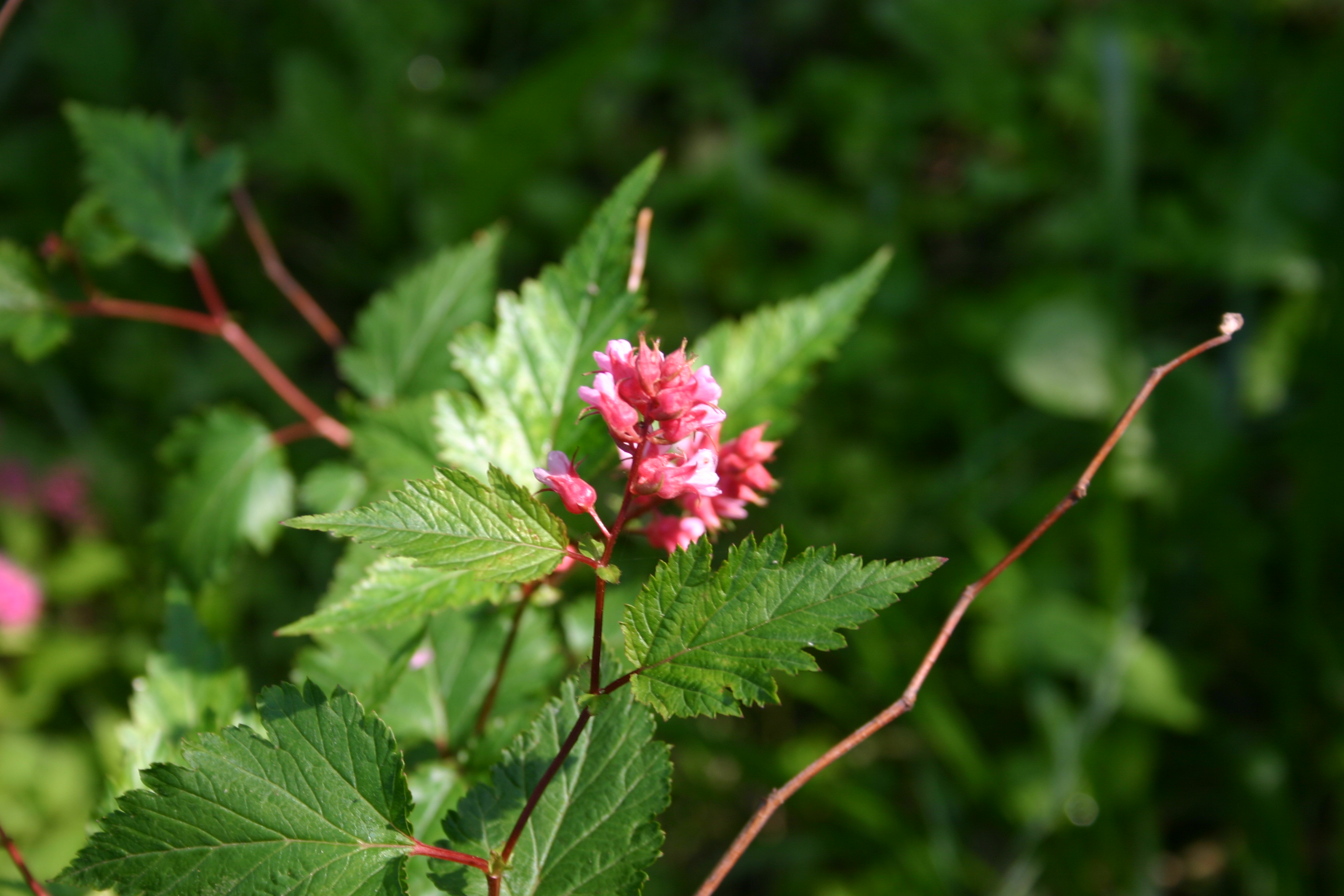 flowers of Neillia sinensis